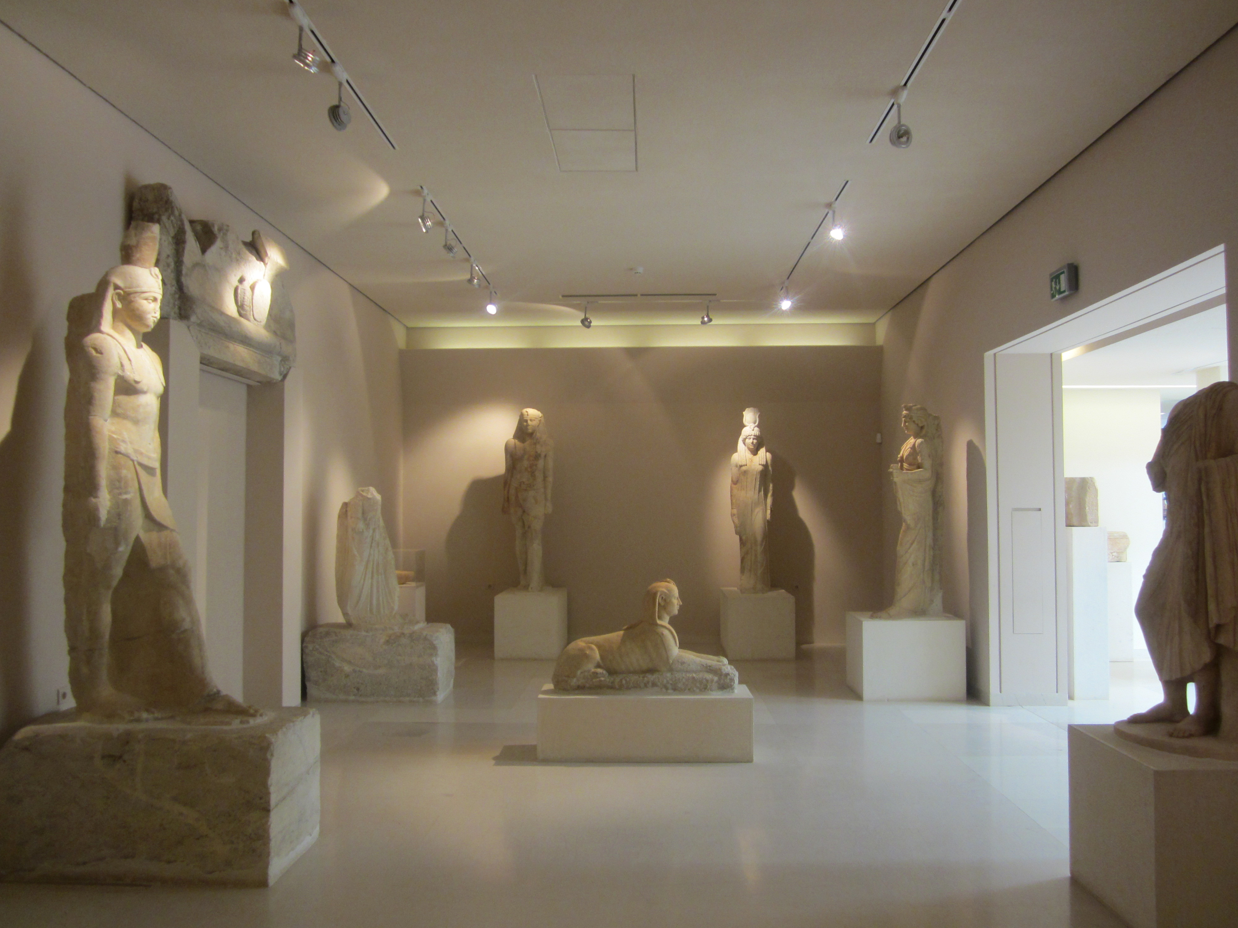 Collections of the Archaeological Museum of Marathon, Greece.